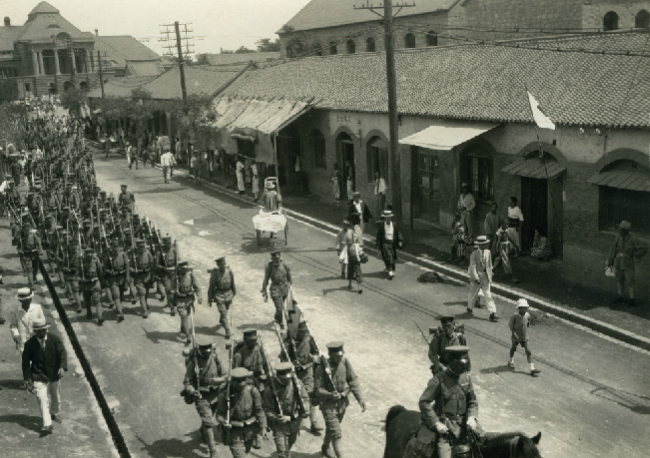 Japanese troops enter Jinan, Shandong, China, during the First Shandong Expedition